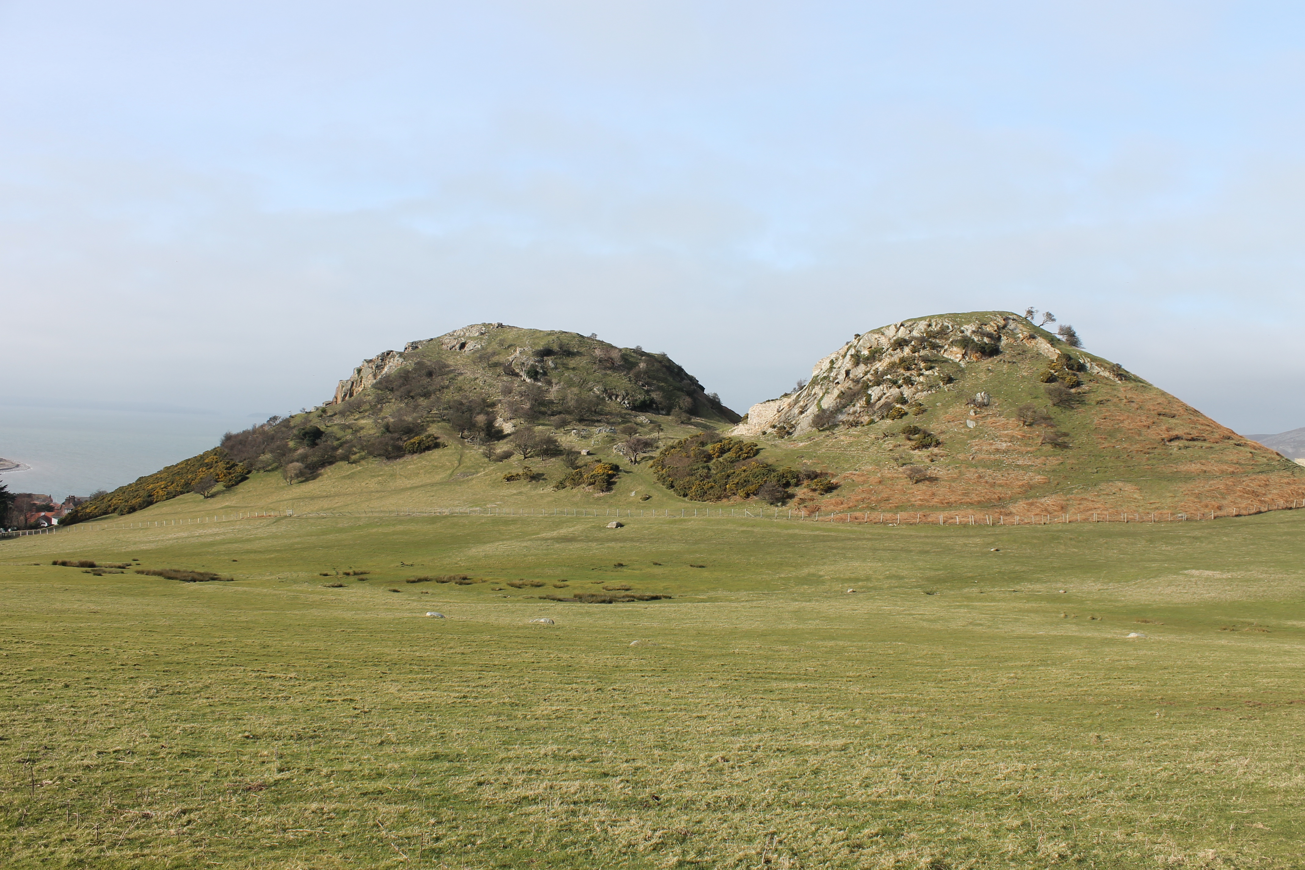 Castell Deganwy Castle (Welsh: Caer Ddegannwy; Modern Welsh: Castell Degannwy) was an early stronghold of Gwynedd and lies in Deganwy at the mouth of the River Conwy in Conwy, North Wales.